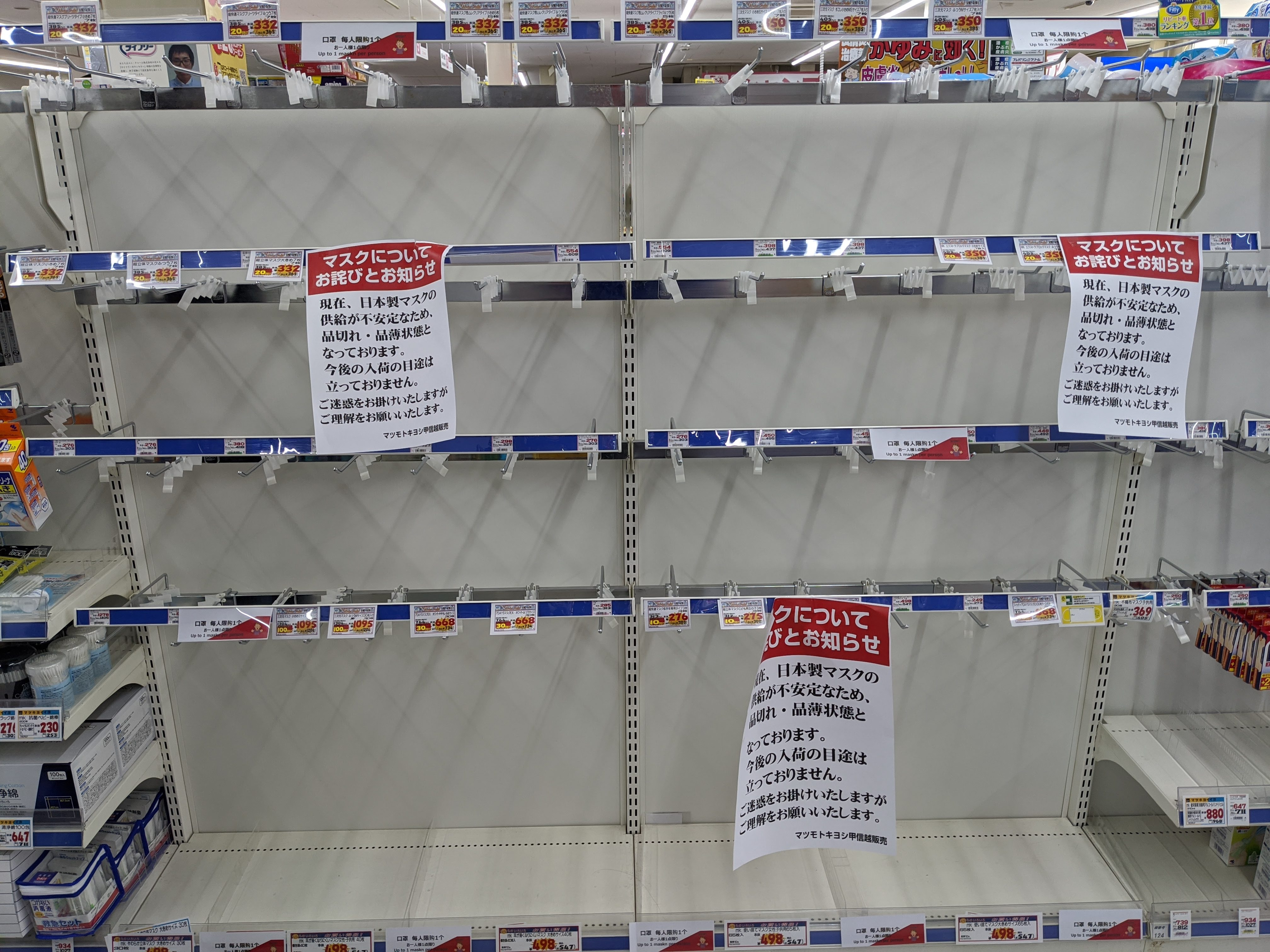 Shelves in a pharmacy sold out of masks in Nagano, Japan